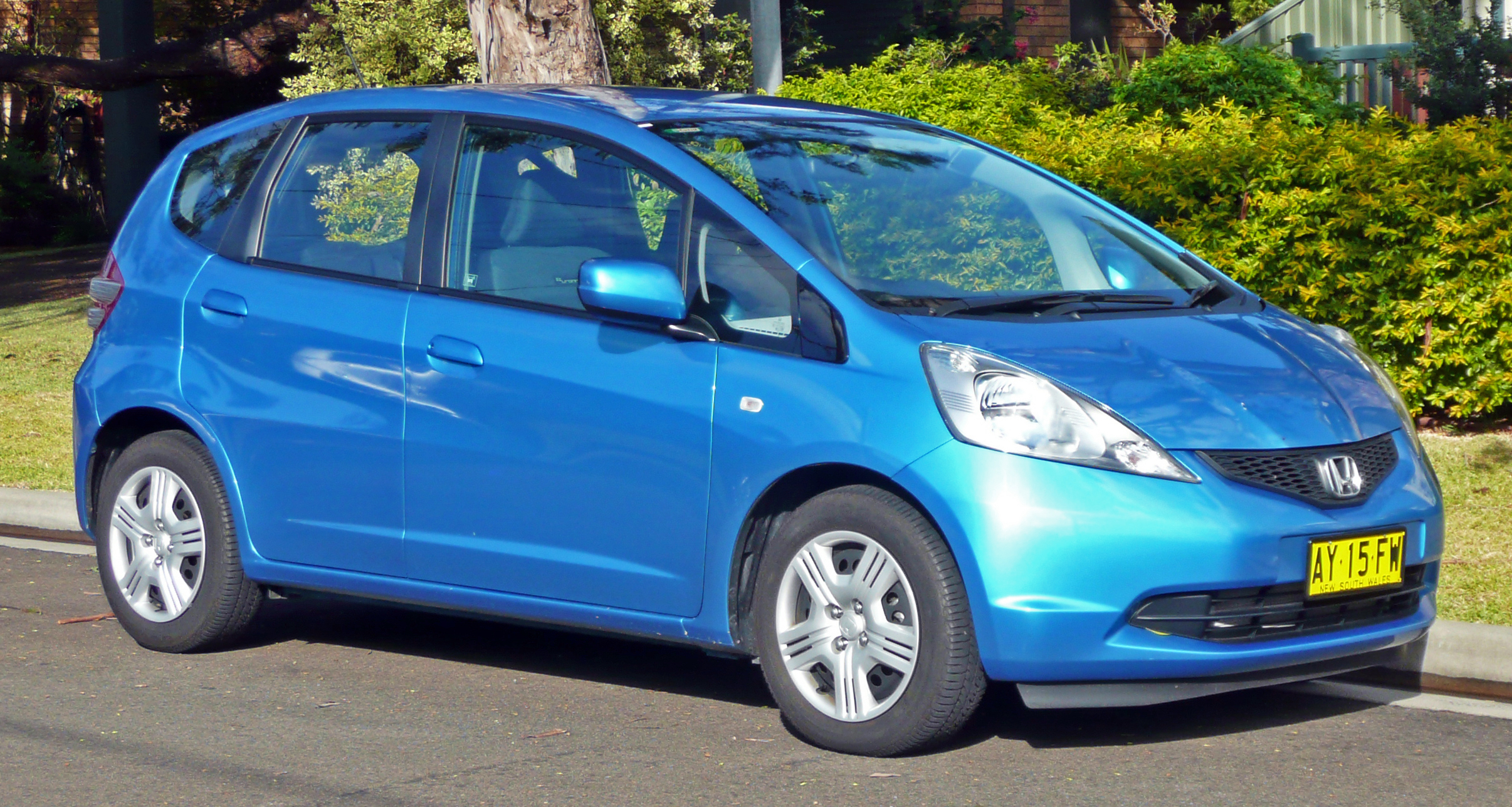 2008–2010 Honda Jazz (GE) hatchback. Photographed in Cronulla, New South Wales, Australia.